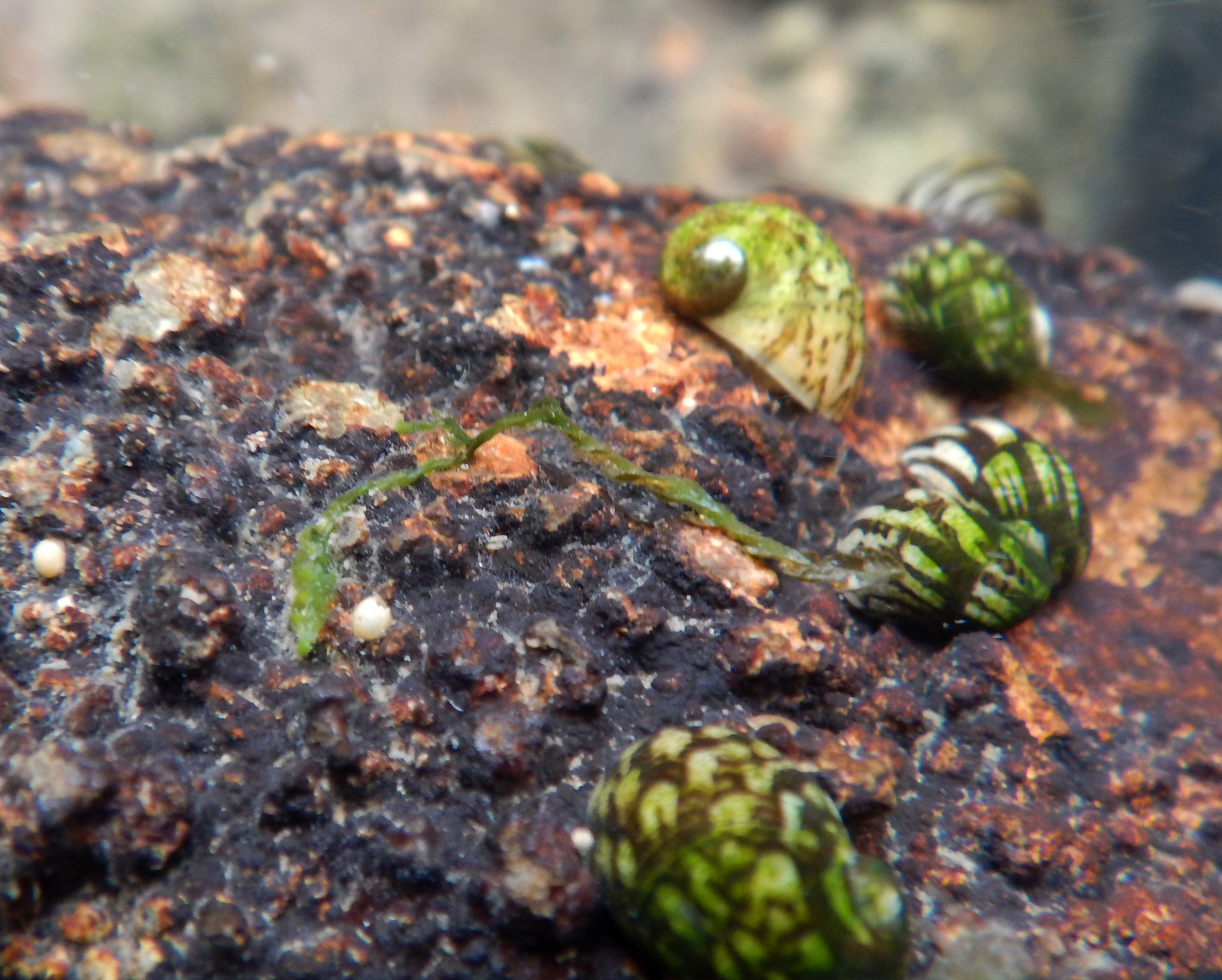 Underwater photography Theodoxus fluviatilis here in August 2015 in the Touvre river (France, near Angoulême).